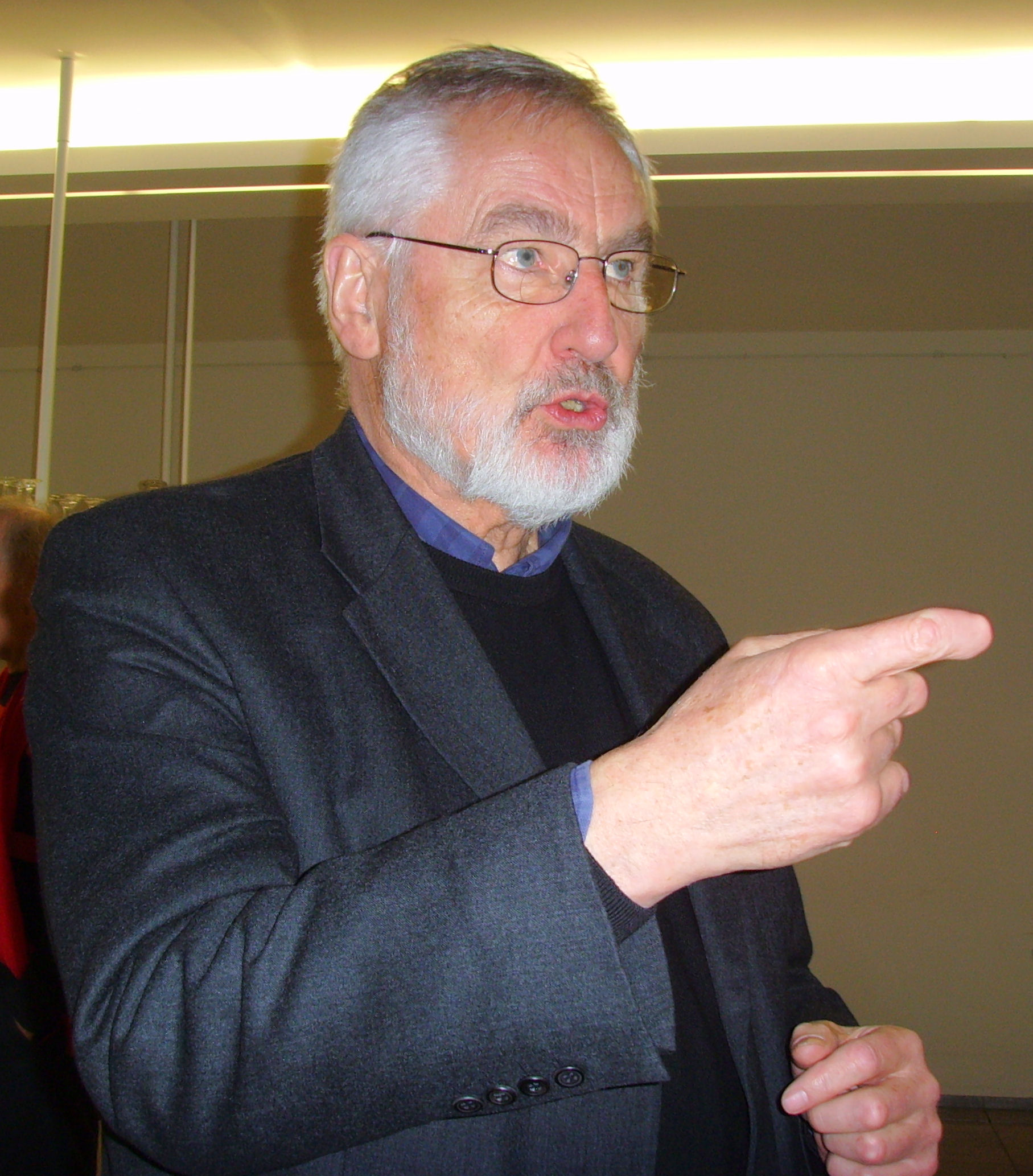 Ernst Poeppel, German neuropsychologist